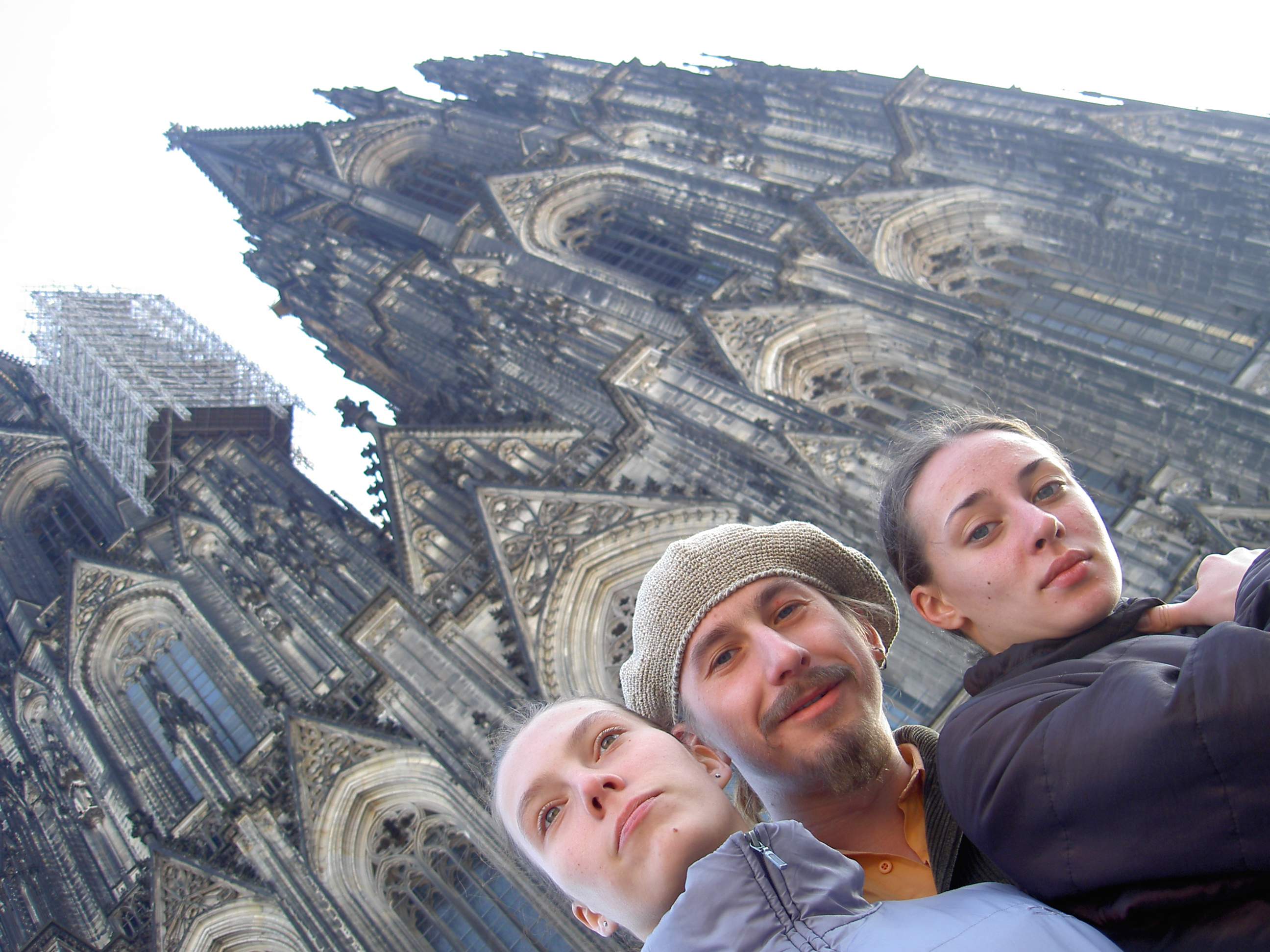 Камерный Драматический театр в Кельне